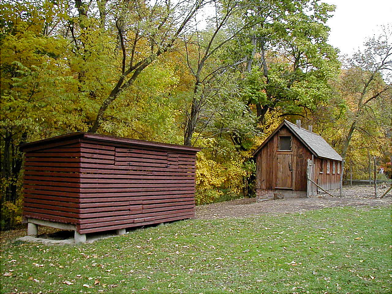 Chellberg Farm, Indiana Dunes NL, Porter County, Indiana (Corn Crib & chicken coop)